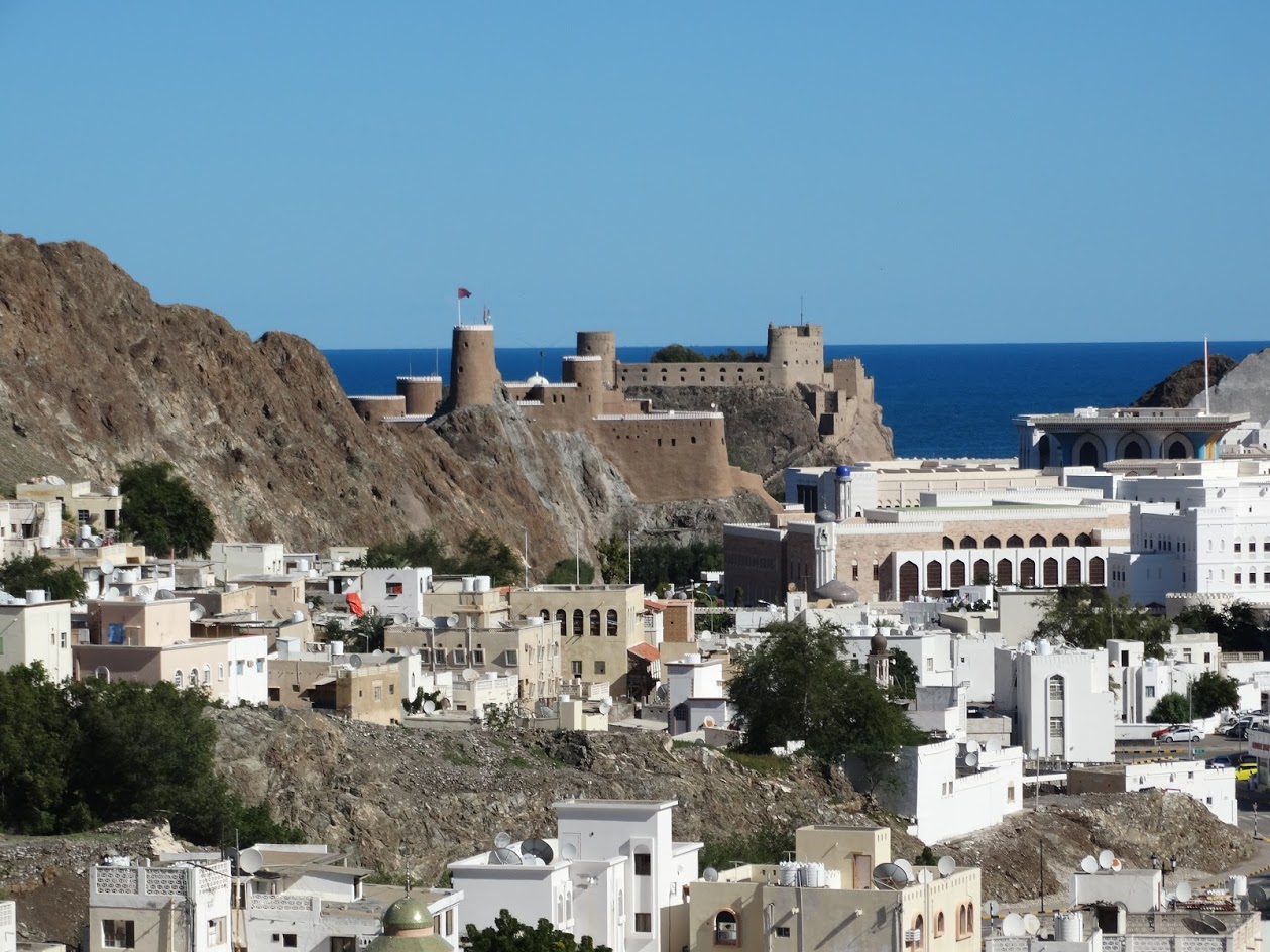 Old city of Maskat